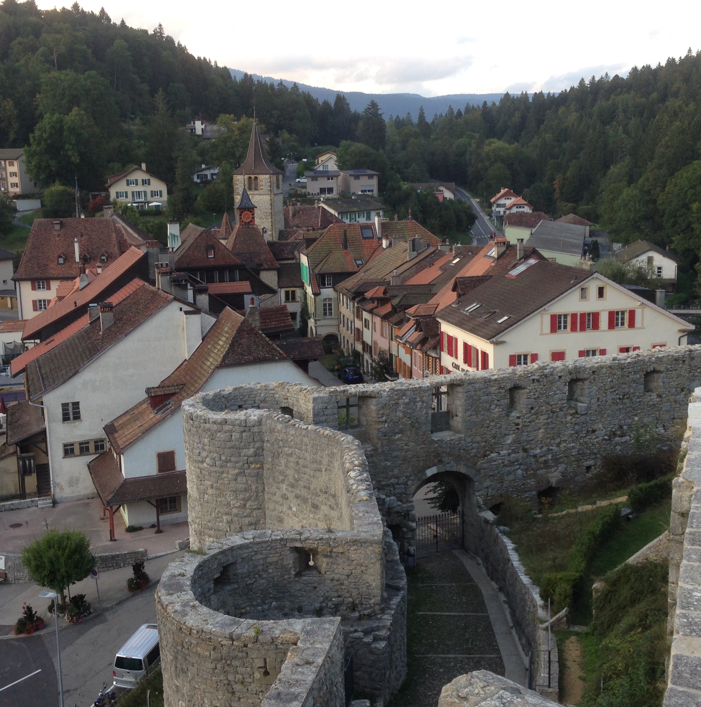 Valangin, le Bourg et les remparts